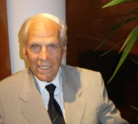 Jordi Cervós